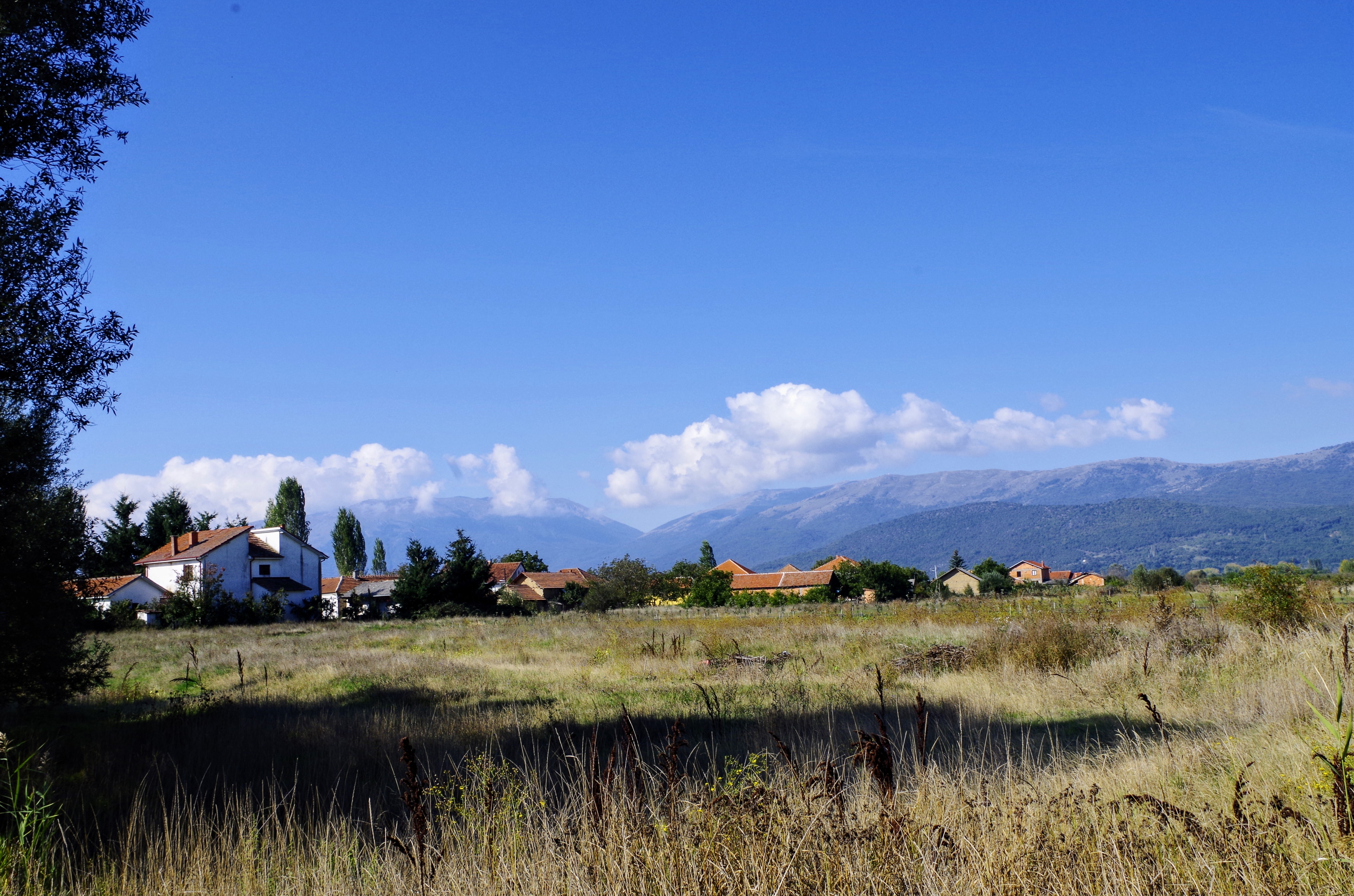 View of the village Dolno Perovo